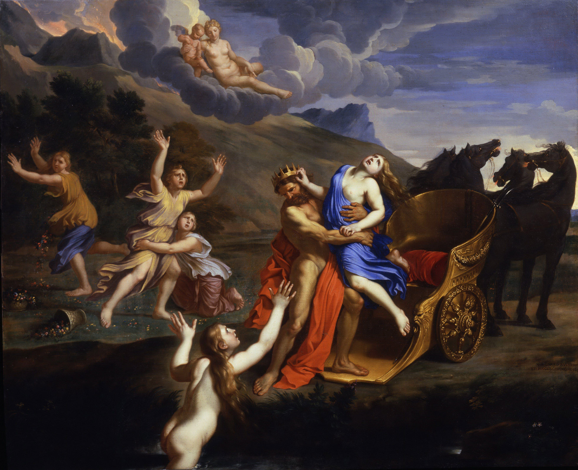 The Rape of Proserpina (Kore) 1616 - 1668